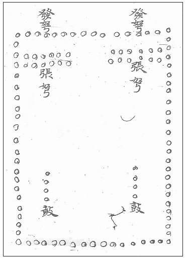 In this depiction of a countermarch method for crossbows, each circle constitutes one soldier. The top line faces the enemy and is labeled "shooting crossbows" (發弩). Below that line are shorter lines of crossbowmen, two horizontal rows on the right and two on the left, which are labeled "loading crossbows" (張弩). The vertical lines within the rectangle, toward the bottom, four circles on the left and four on the right, are labeled "drums." From Li Quan 李筌, Shen ji zhi di tai bai yin jing 神機制敵太白陰經, Originally written ca. 759 CE.